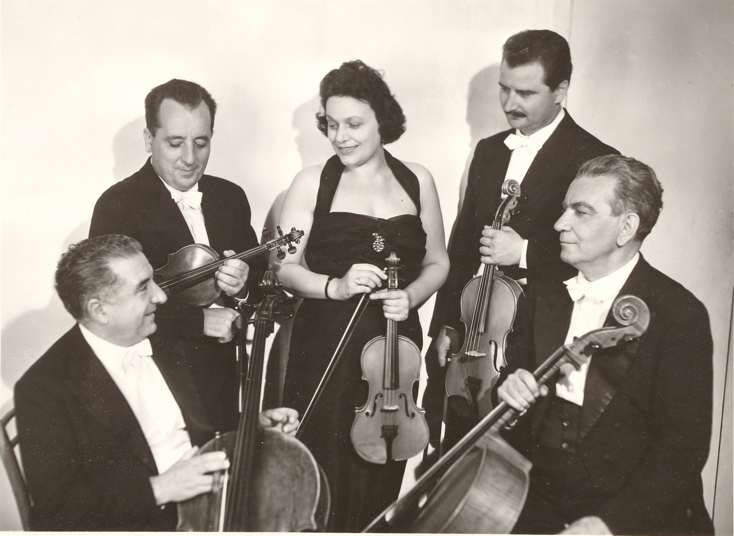 one of the earliest formations of the Boccherini Quintet (Nerio Brunelli, Guido Mozzato, Pina Carmirelli, Luigi Sagrati, Arturo Bonucci)